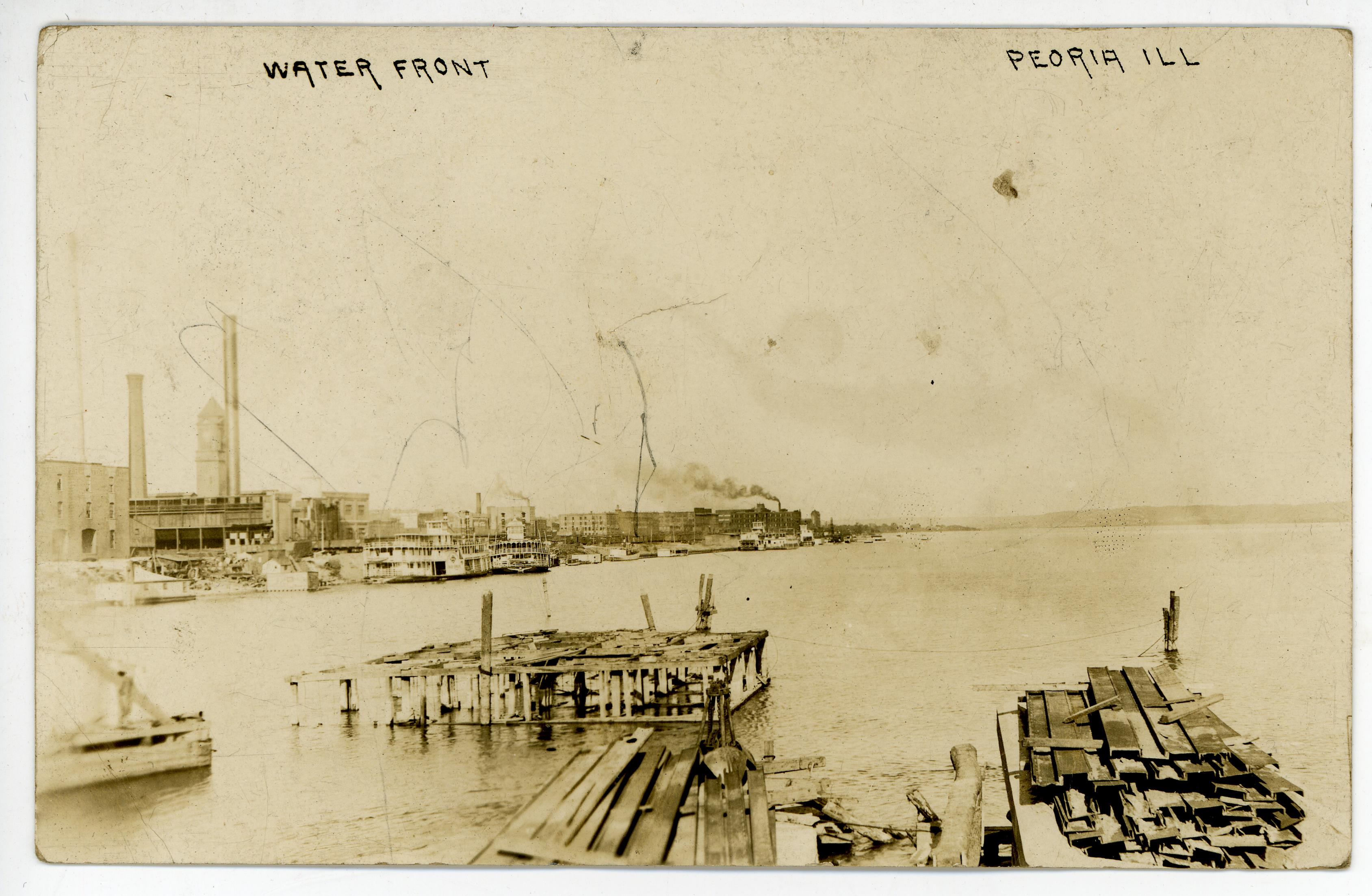 From the University of Maryland Digital Collections website: "The waterfront in Peoria, Illinois with factories and ships visible in the distance. Postmark: January 1909."